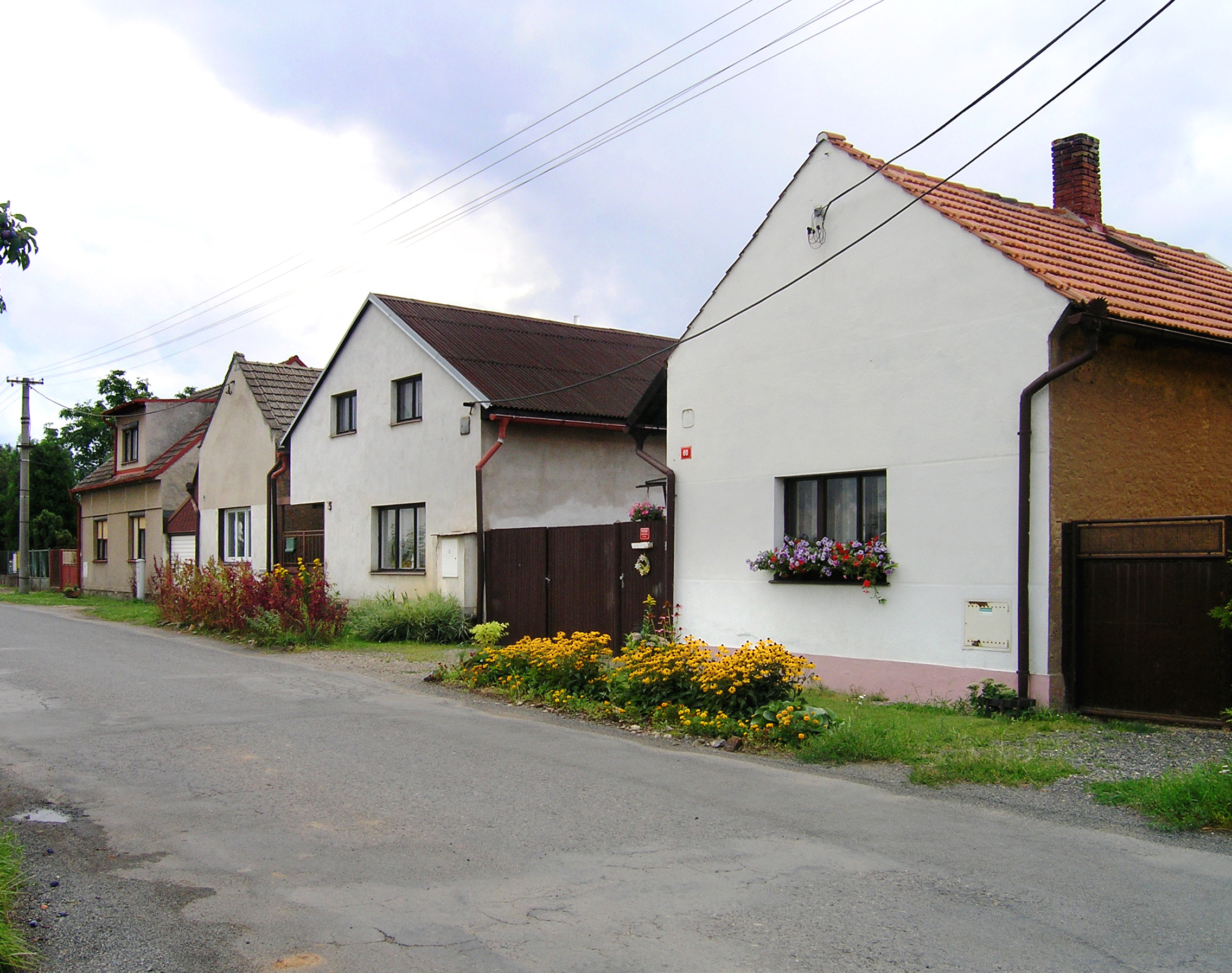 South part of Čakovičky, Czech Republic